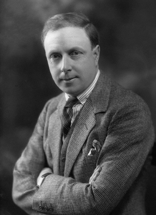 A. J. Cronin